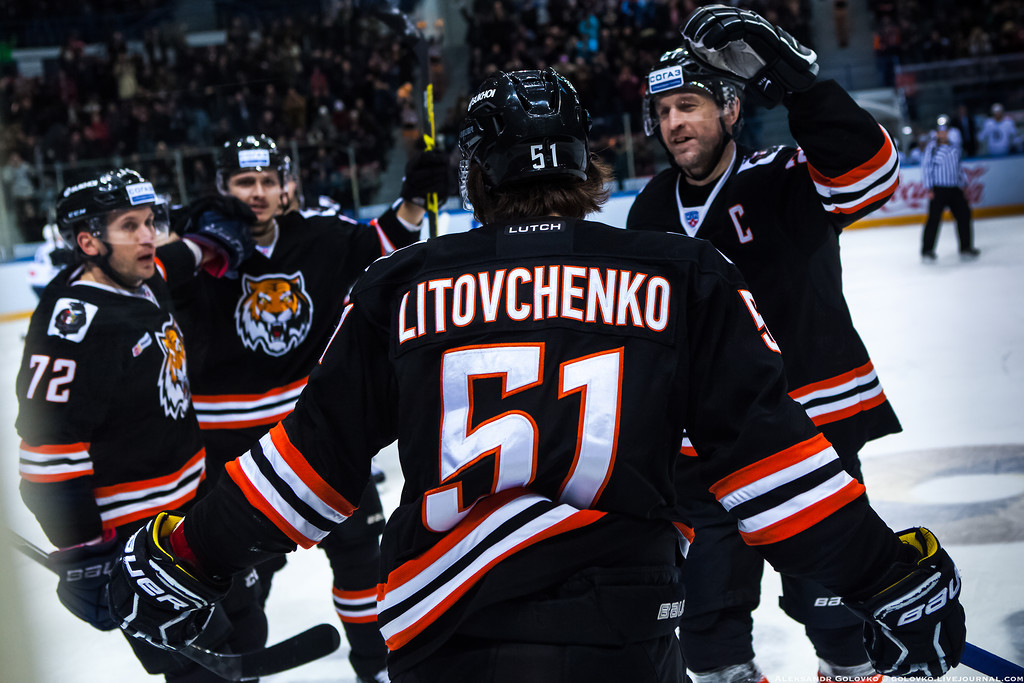 HC Amur Khabarovsk hockey players celebrate the goal during the Kontinental Hockey League match between HC Amur and HC Dynamo Moscow on January 29, 2016.